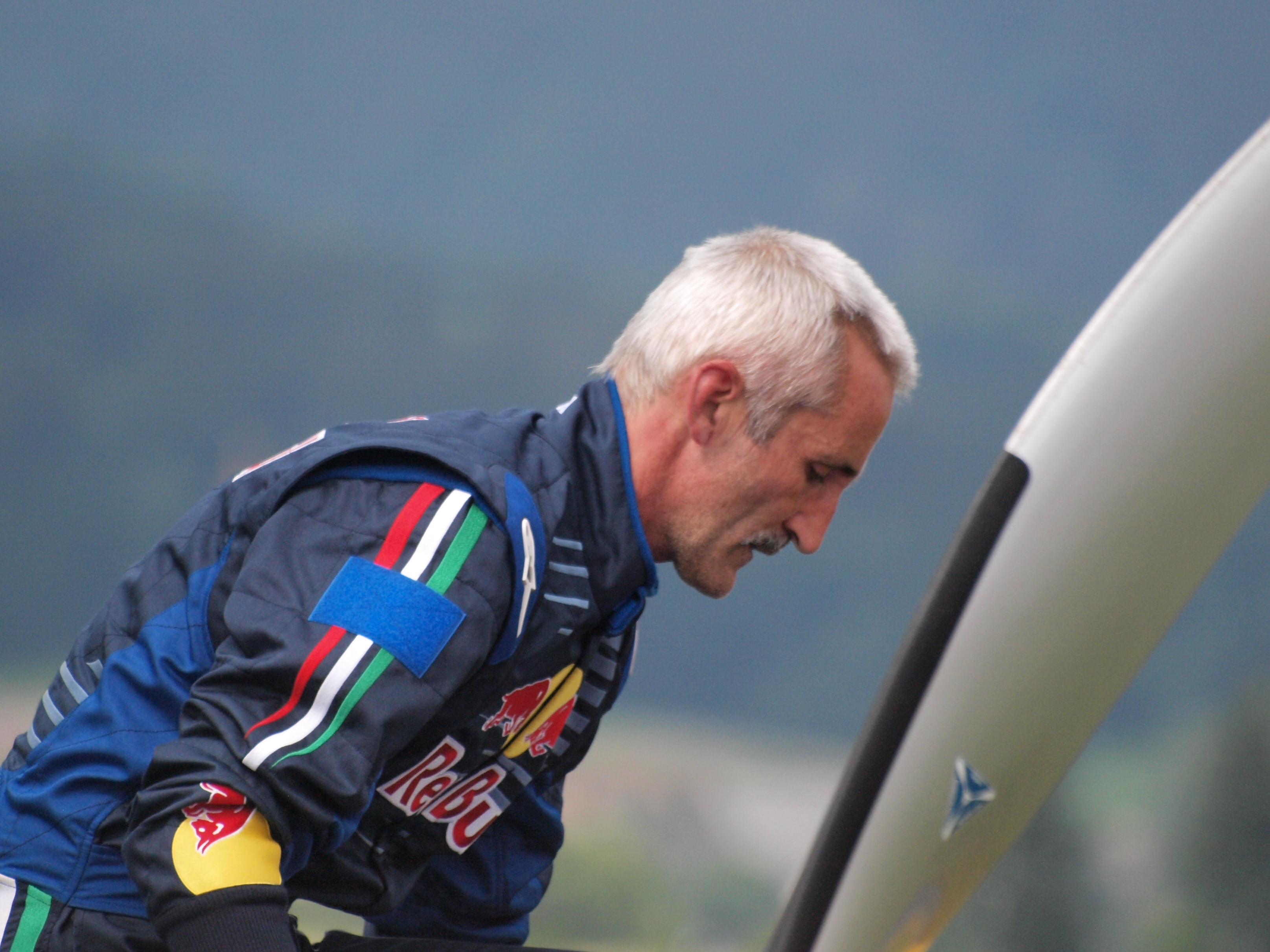 Hungarian aerobatics pilot Péter Besenyei. Air Power 09, Zeltweg, Austria.